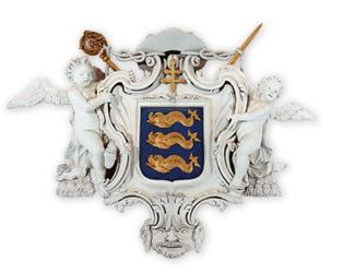 Coat of Arms of Cardinal Daniel Delfin found in the Patriarchal Palace of Udine